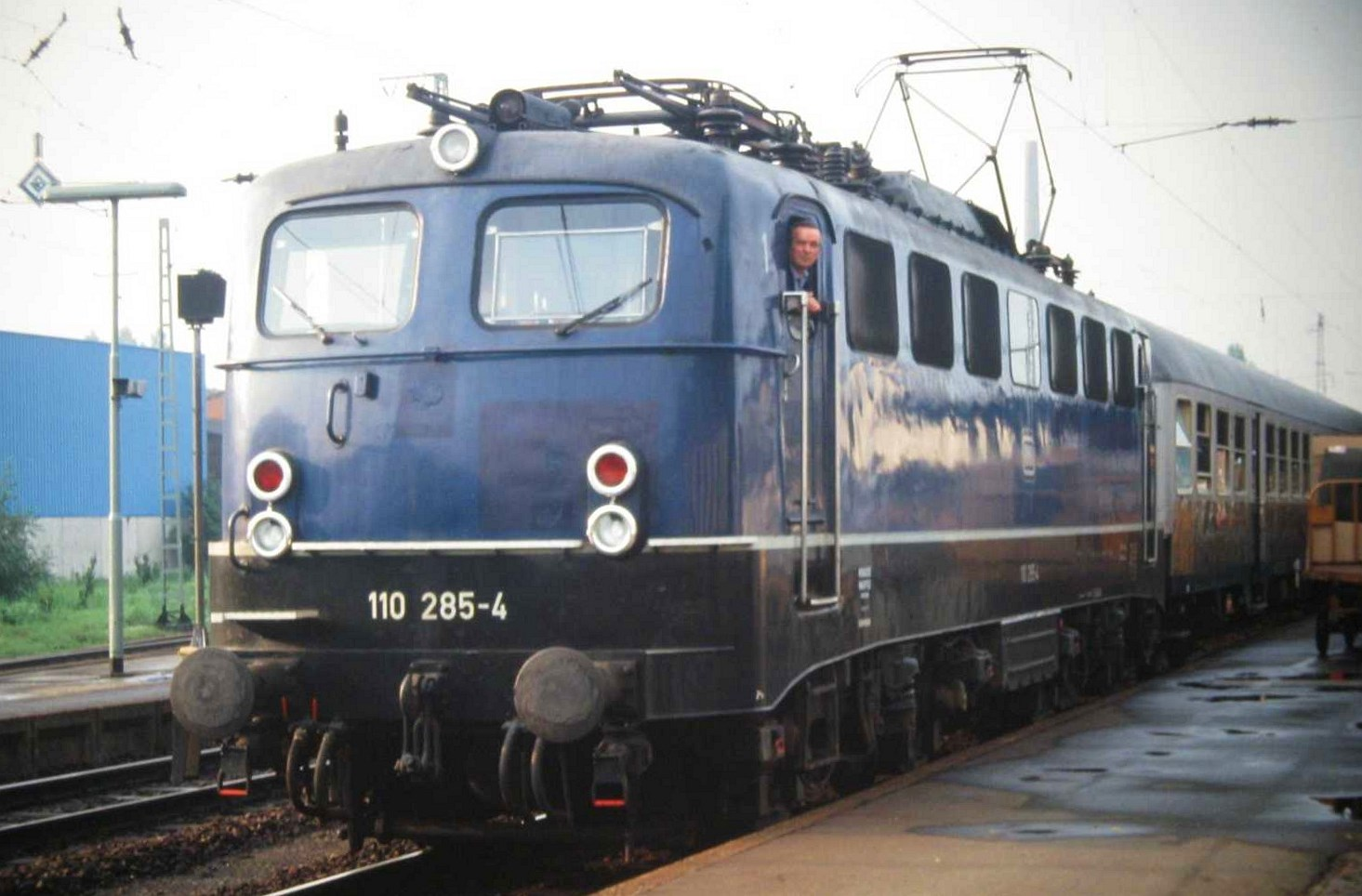 Series 110.2 (built in 1963) with double lamps in cobalt blue in Lüneburg Hbf; Archive no. 68/14